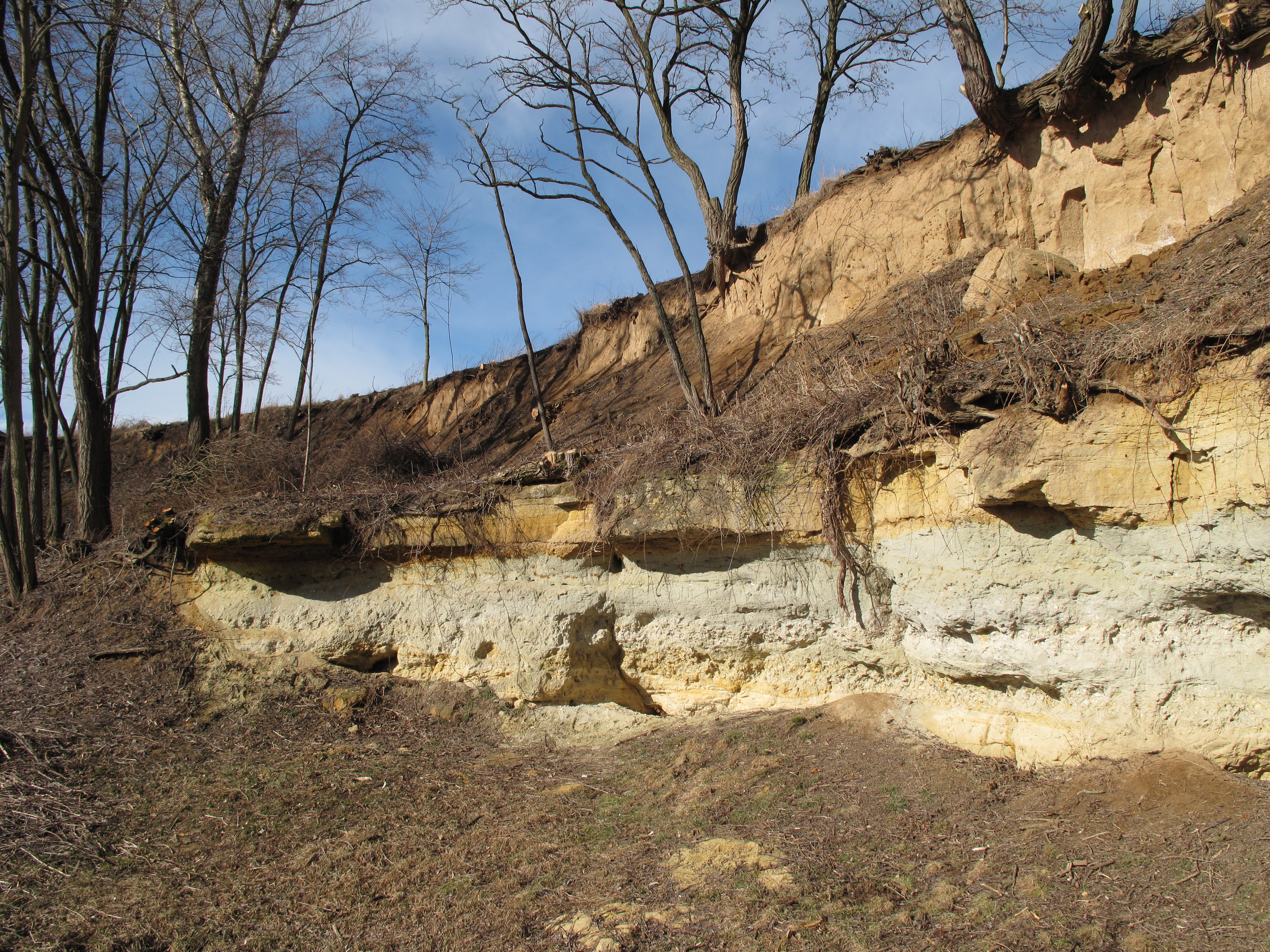 Natural monument Lom u Červených Peček, Kolín District, Czech Republic.